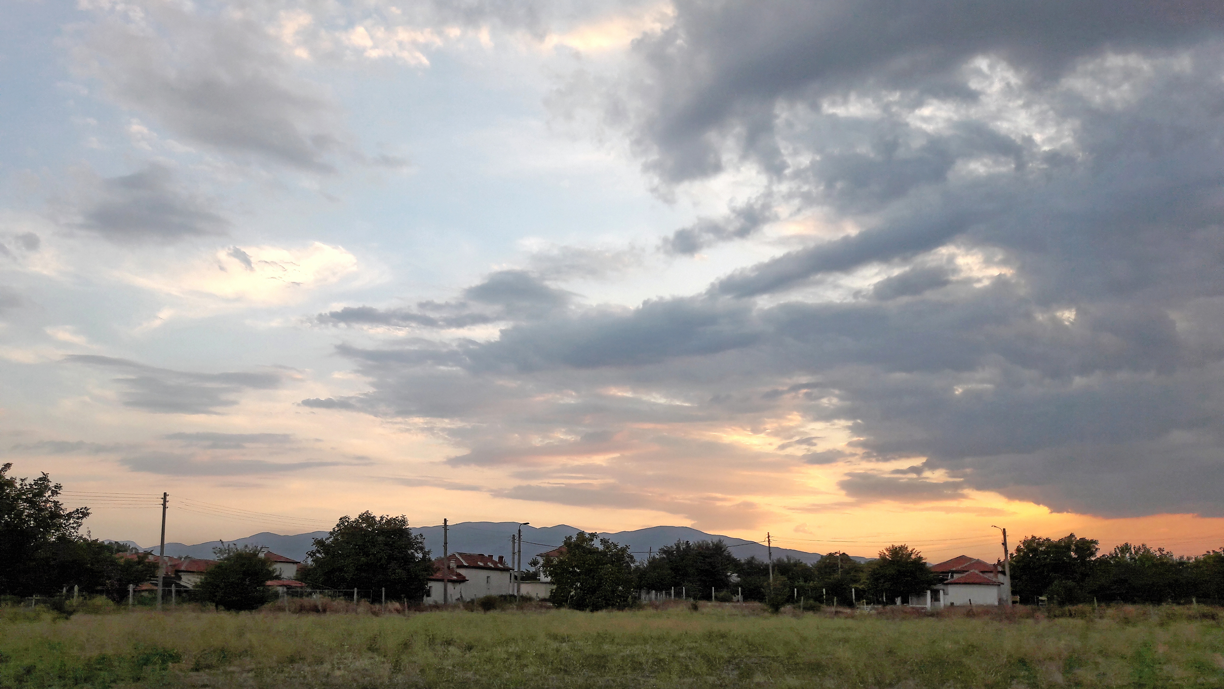 View of Patriarch Evtimovo from the north